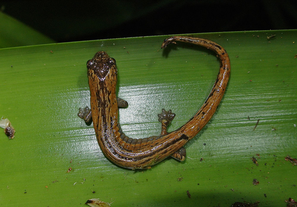 Savage's Salamander, pulled from a tank bromeliad in El Dorado Reserve, Santa Marta Range, Colombia. In context at